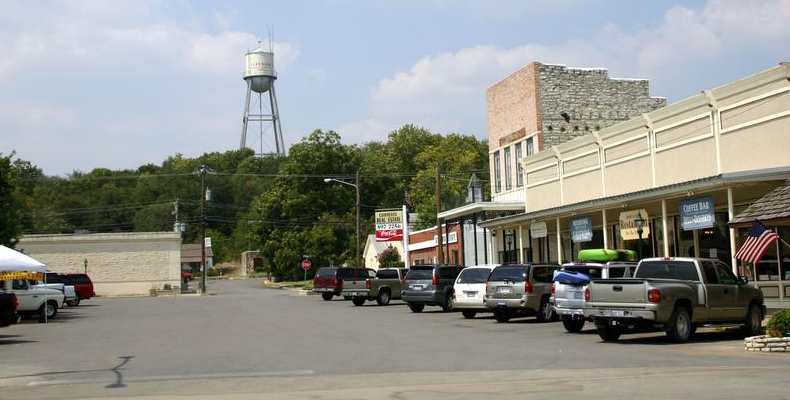 Downtown Glen Rose, Texas